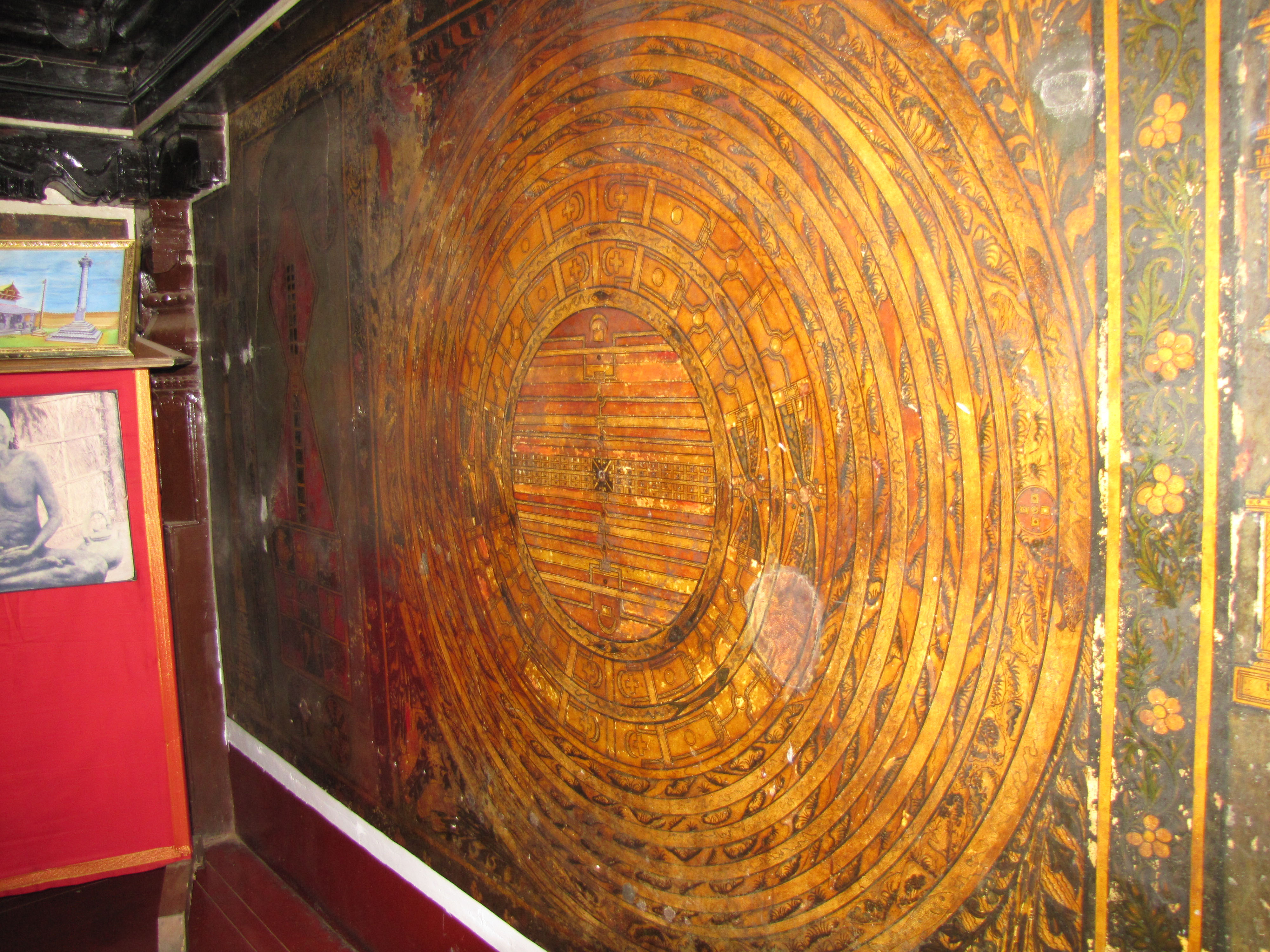 The wall painting of eratuvare dweepa in Jain Basadi, Moodbidri, Karnataka